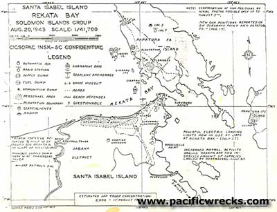 Map of Rekata Bay seaplane base in the solomon islands, WW2